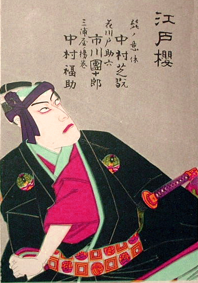 Danjūrō Ichikawa IX as Sukeroku in May 1896 production of Edozakura at Tokyo Kabukiza, portrayed by Kunichika Toyohara.